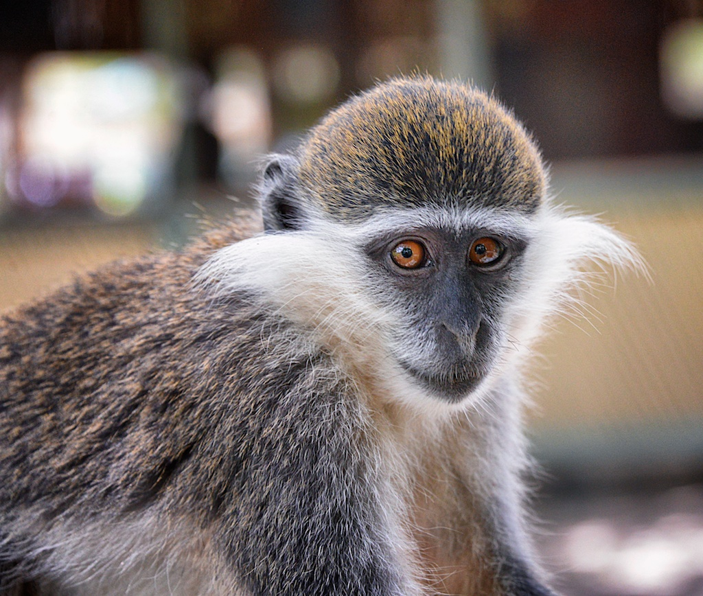 Grivet Monkey, Ethiopia